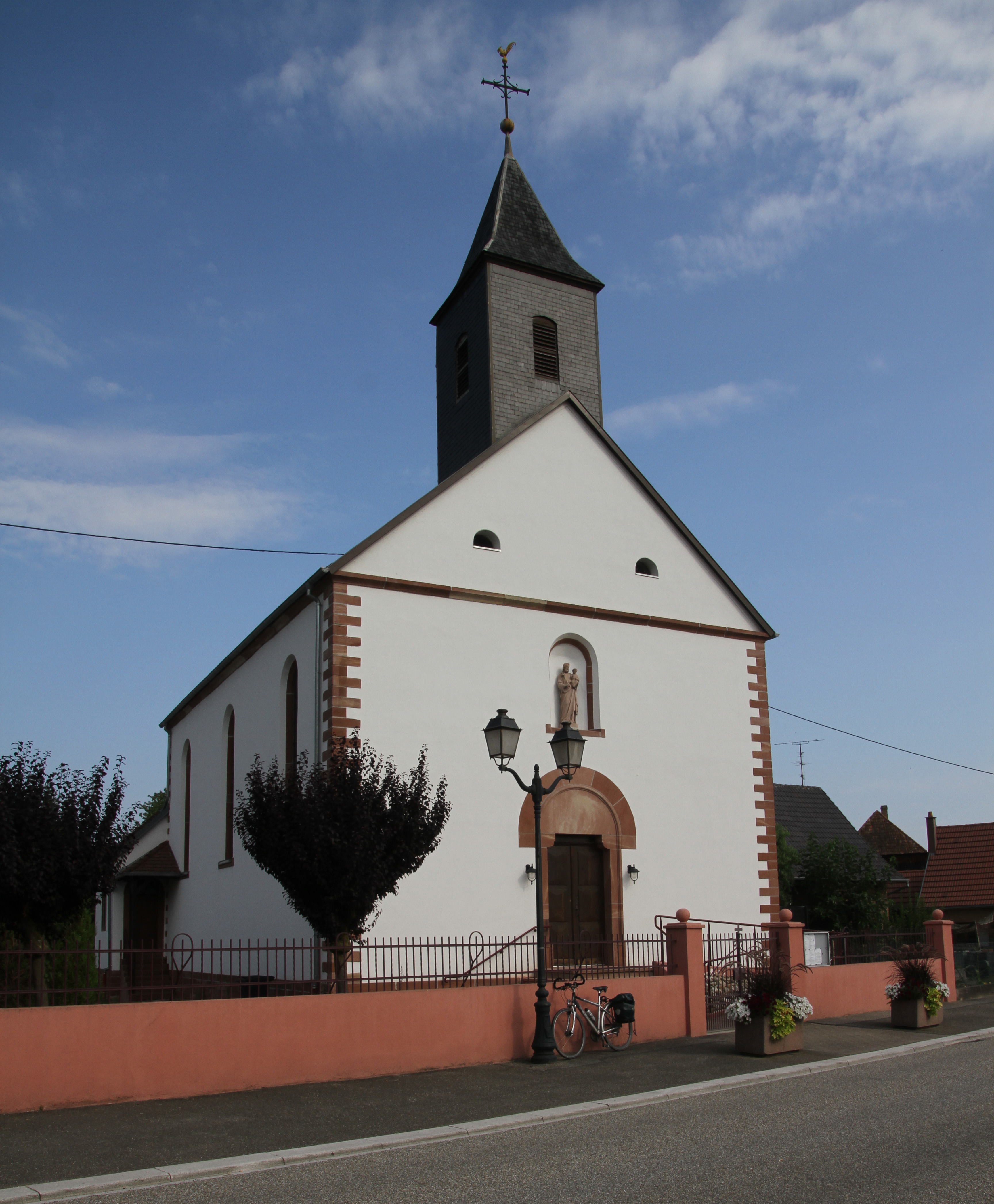 Church of Saint Joseph in Roppenheim.